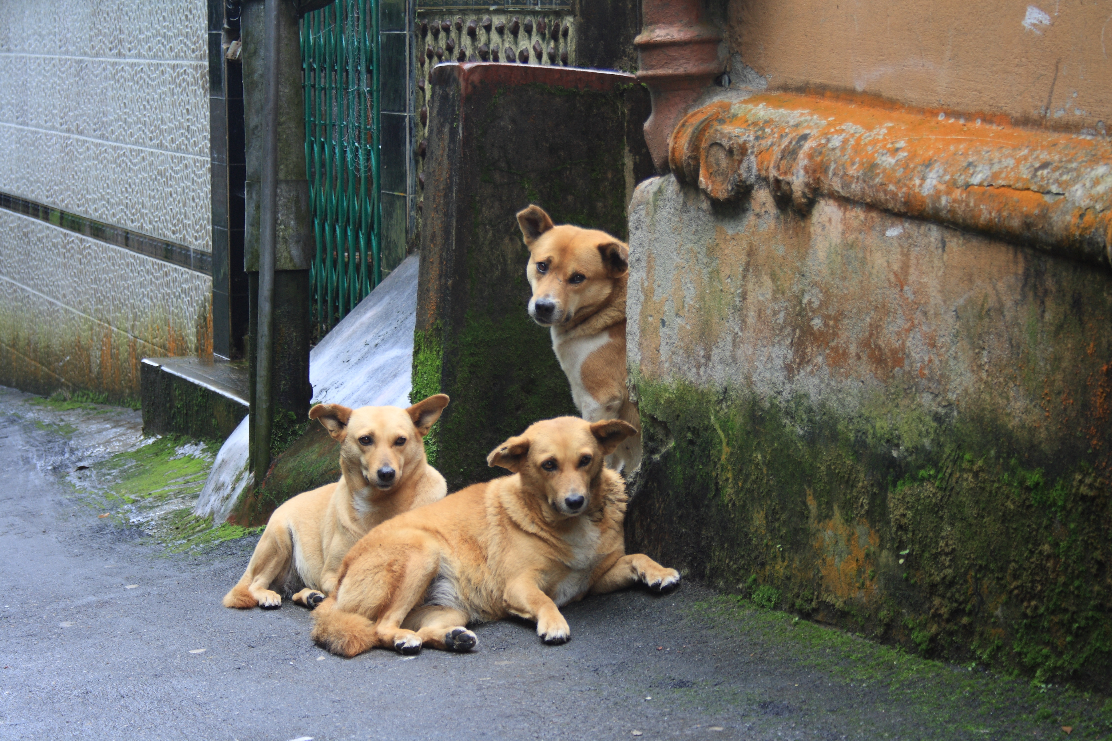 Dogs in Darjeeling. Because of the cold climate they have a thick fur.